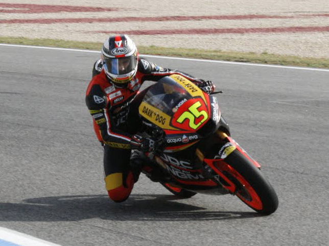 Alex Baldolini 2011 Estoril